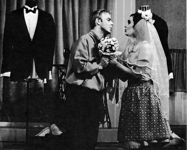 Arne Strömgren as Tony and Eva Serning as Maria in West Side Story at Oscarsteatern, Stockholm